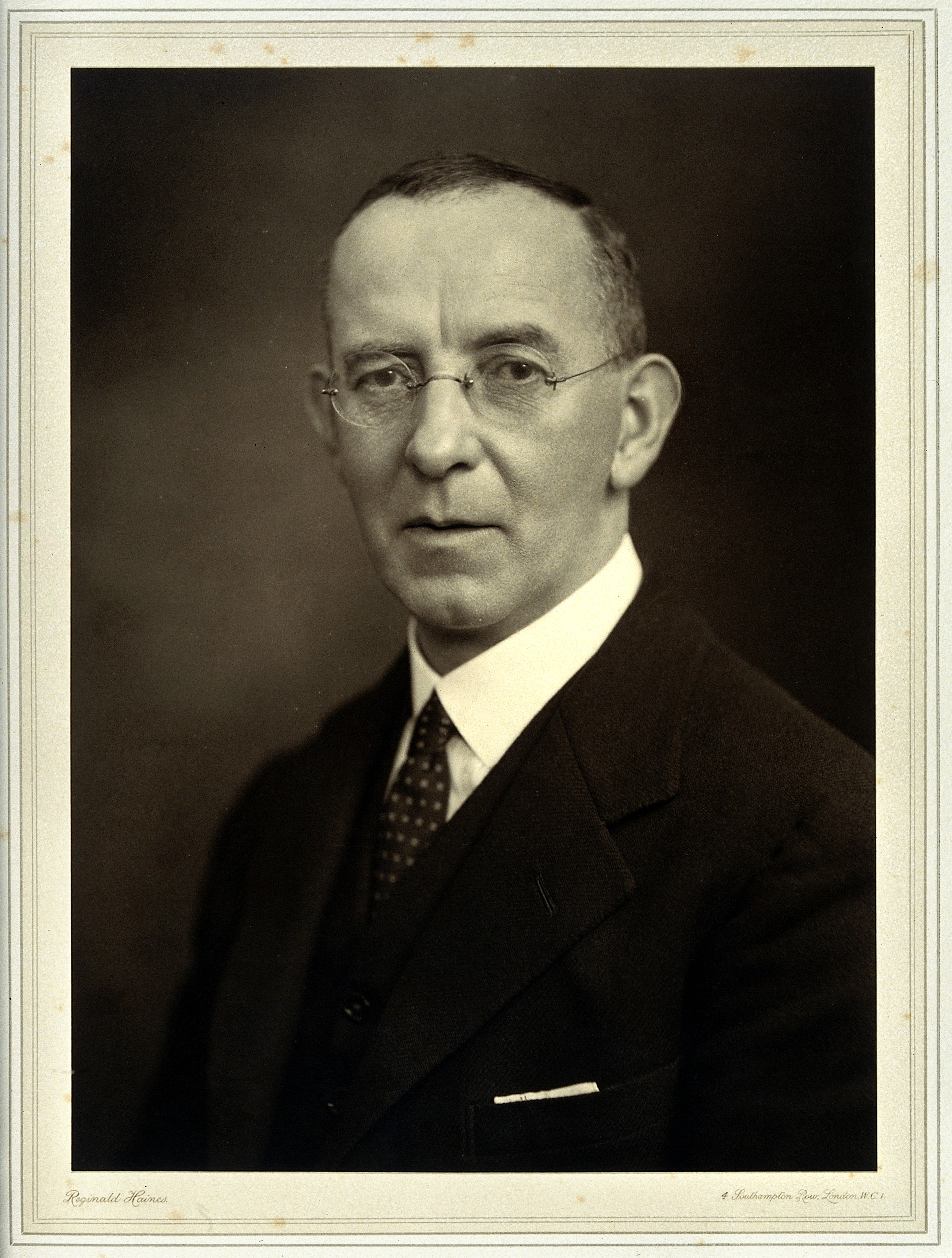 George Carmichael Low. Photograph by Reginald Haines. Iconographic Collections Keywords: portrait photographs